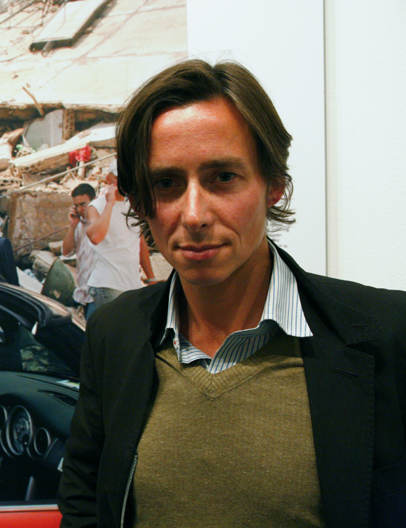 Spencer Platt standing infront of his winning image